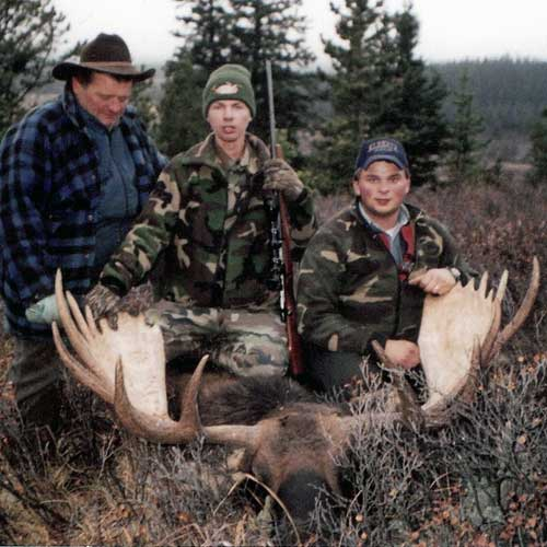 Matthew Pattison with his moose